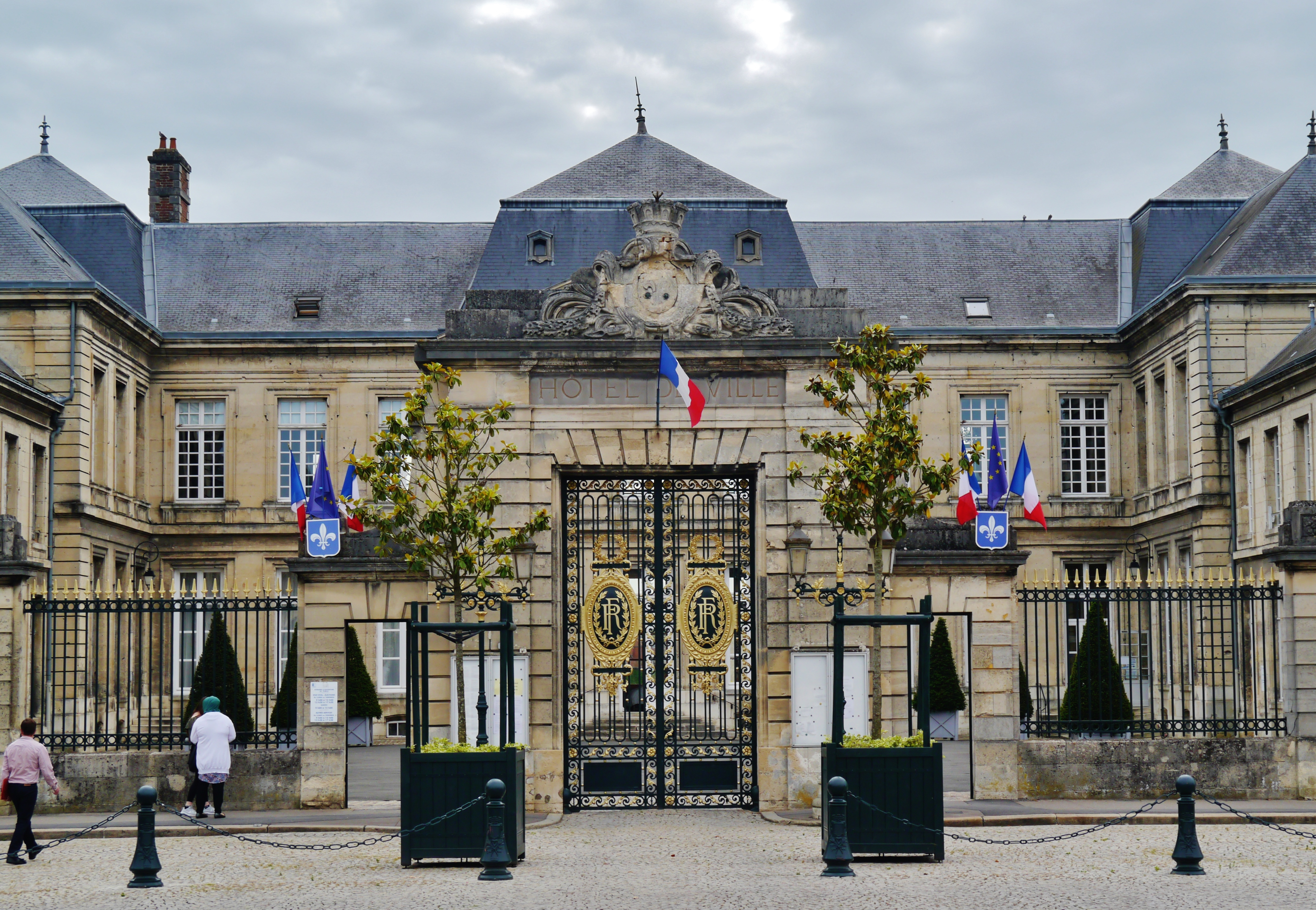 City Hall, Soissons, Department of Aisne, Region of Upper France (former Picardy), France